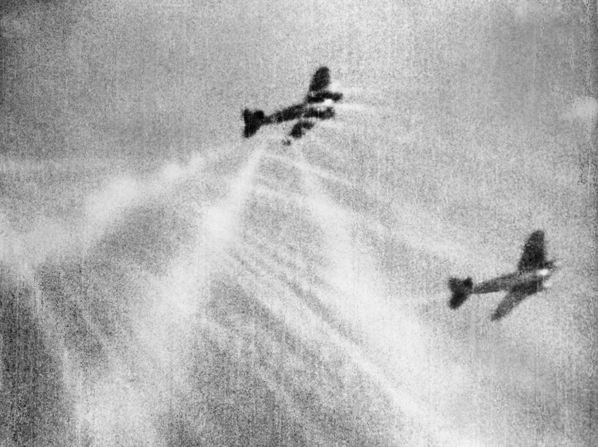 A still from camera gun film shows tracer ammunition from a Supermarine Spitfire Mark I of No. 609 Squadron RAF, flown by Flight Lieutenant J H G McArthur, hitting a Heinkel He 111 on its starboard quarter. These aircraft were part of a large formation from KG 53 and KG 55 which attacked the Bristol Aeroplane Company's works at Filton, Bristol, just before midday on 25 September 1940. No. 609 Squadron were based at Middle Wallop, Hampshire.